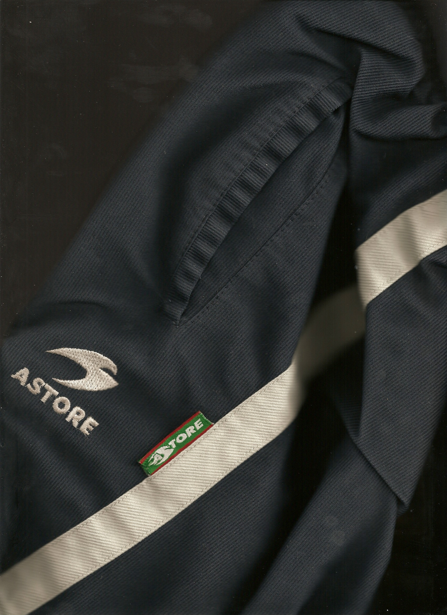 Astore tracksuit (Basque Country football team, Europe)